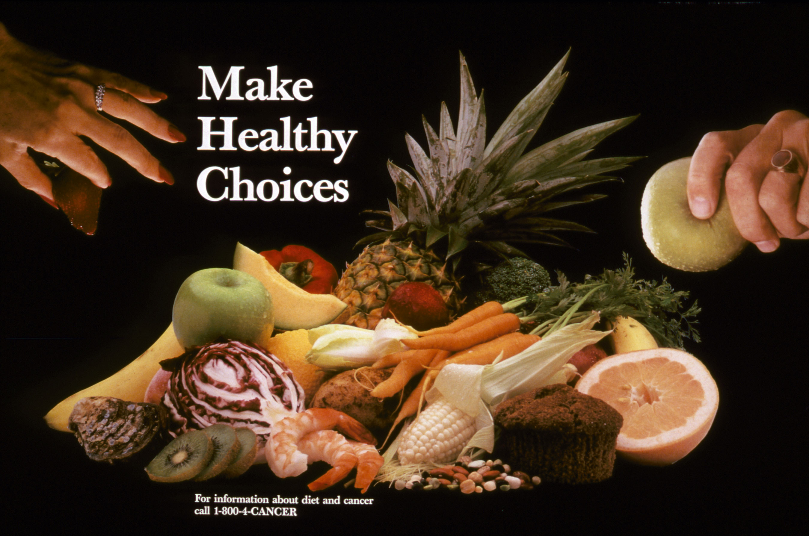 Title Make Healthy Choices Poster Description Poster "Make Health Choices" showing good foods with one hand holding a strawberry and another hand holding an apple. Topics/Categories Food and Drink Historical -- Graphics Type Color, Photo Source National Cancer Institute